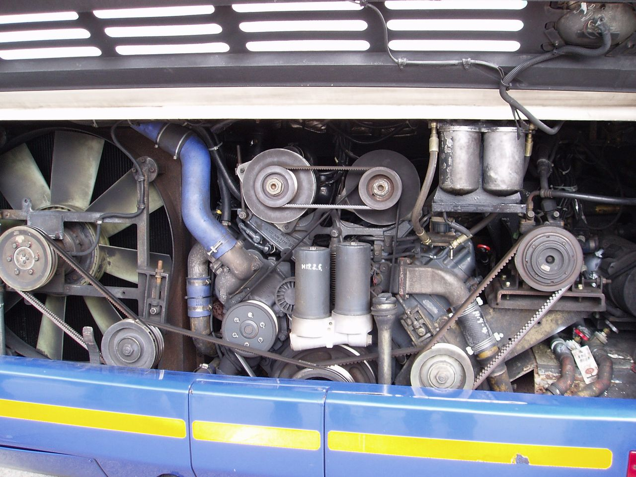 The Mercedes Benz type OM441LA carried in N122/3 Skyliner, 503PS